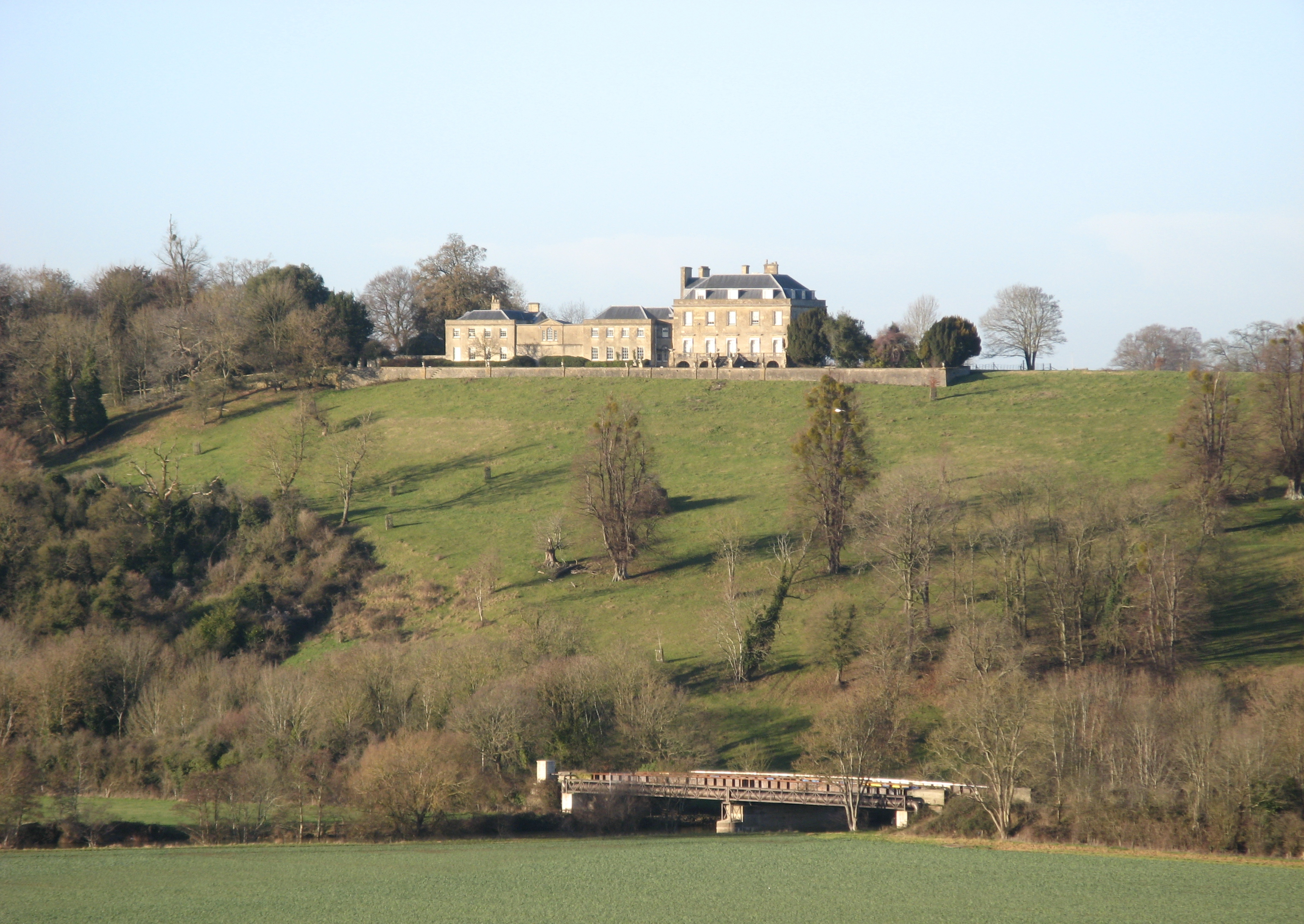 Kelston Park,[1] from Seven Acre Wood near Newton St Loe, across the River Avon valley. The bridge over the river carries the Bristol and Bath Railway Path.